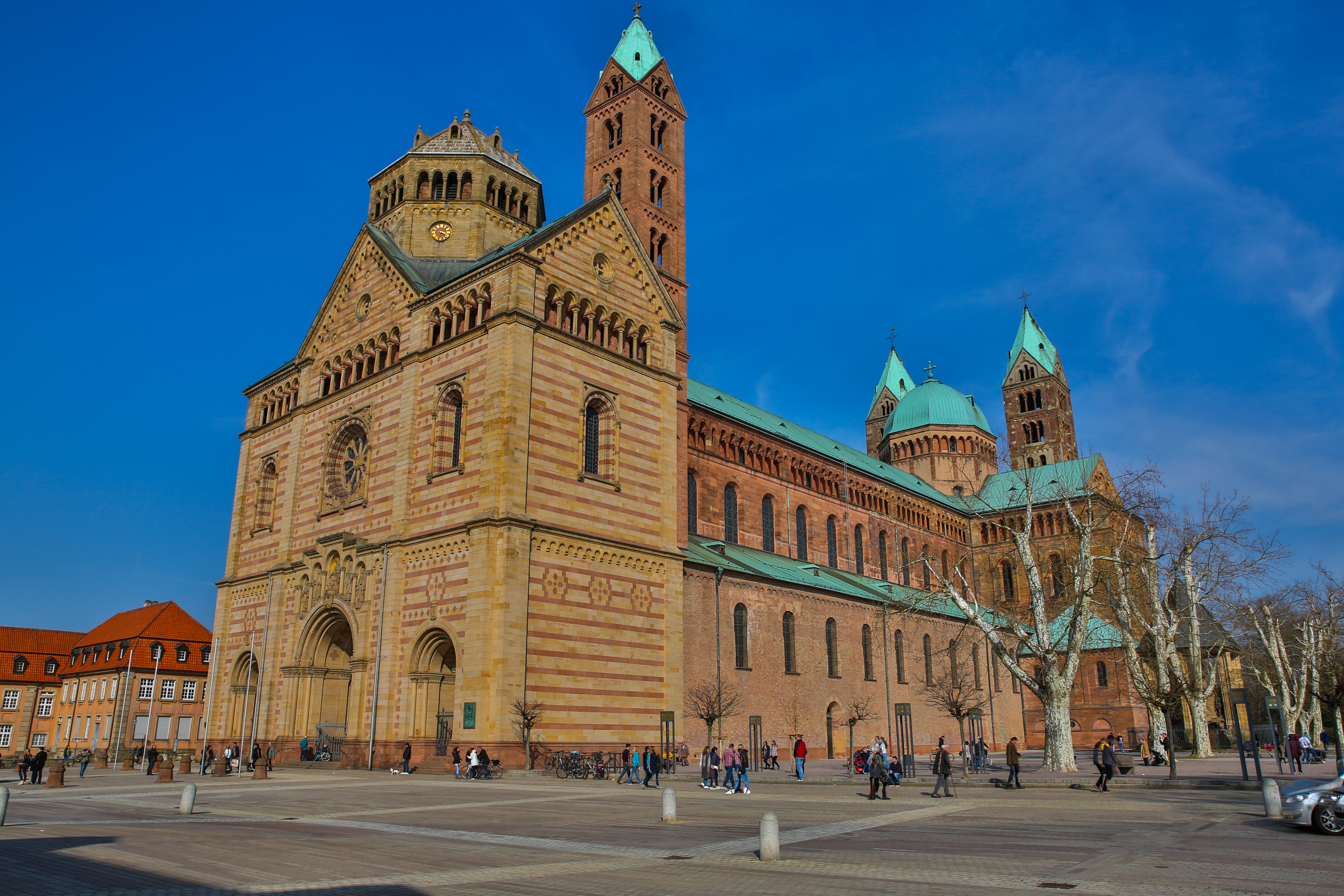 Dom zu Speyer. View from South-West